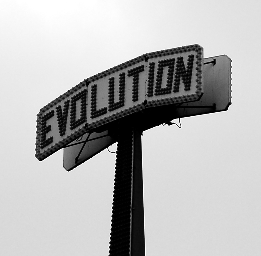 The top of the Evolution ride, seen from a distance.